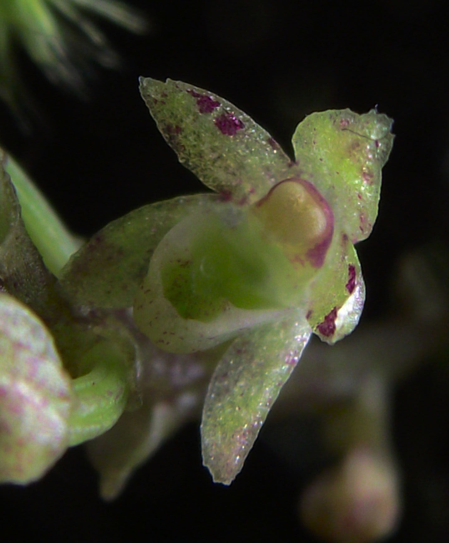 Close up of Drymoanthus adversus flower